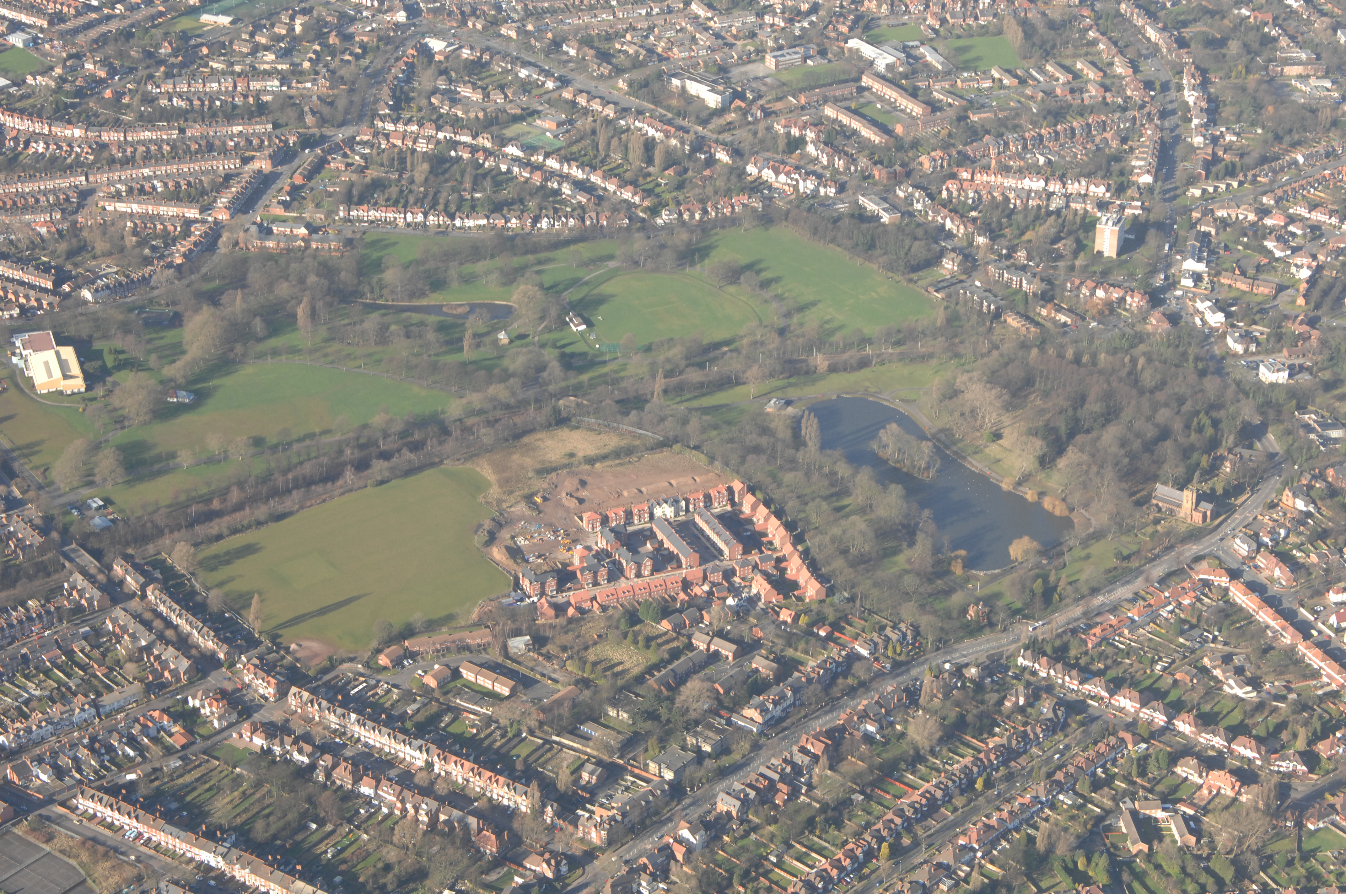 Handsworth Park, Birmingham, England. Photo taken by the West Midlands Police helicopter during routine operations.